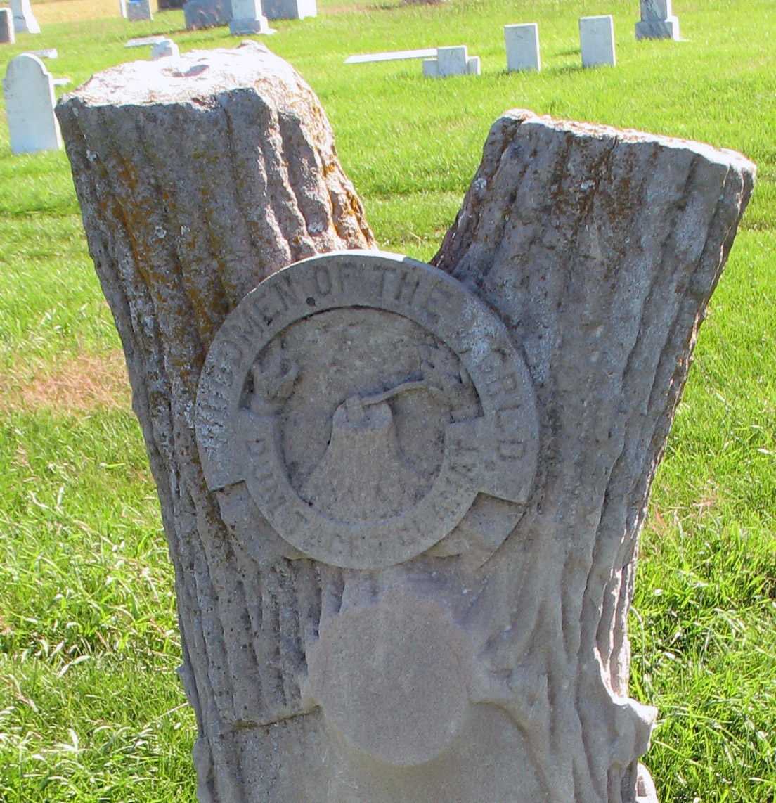 Woodmen of the World cemetery stone in Graham, Missouri Prairie View Cemetery. Photo by poster in September 2007.